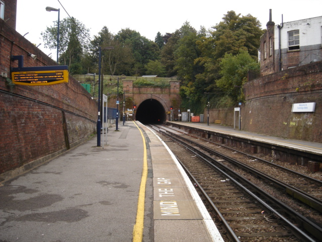 Southbound view at Tunbridge Wells railway station, towards Grove Tunnel. Photographed on 29 September 2007.